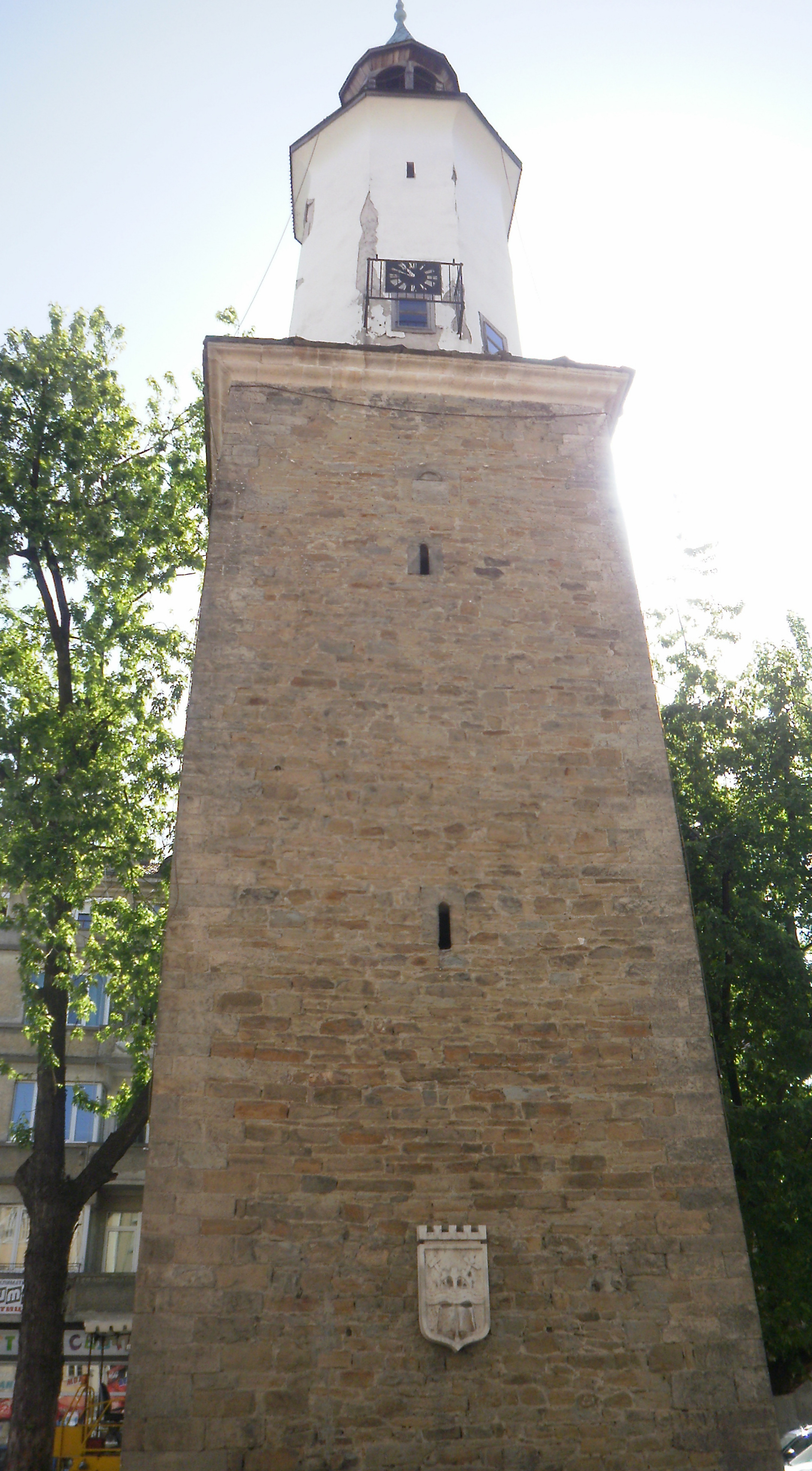 Gabrovo clock tower, Bulgaria